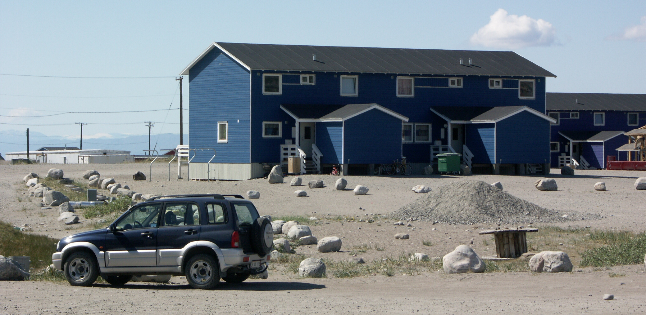 Houses in the residential area of Kangerlussuaq, Greenland